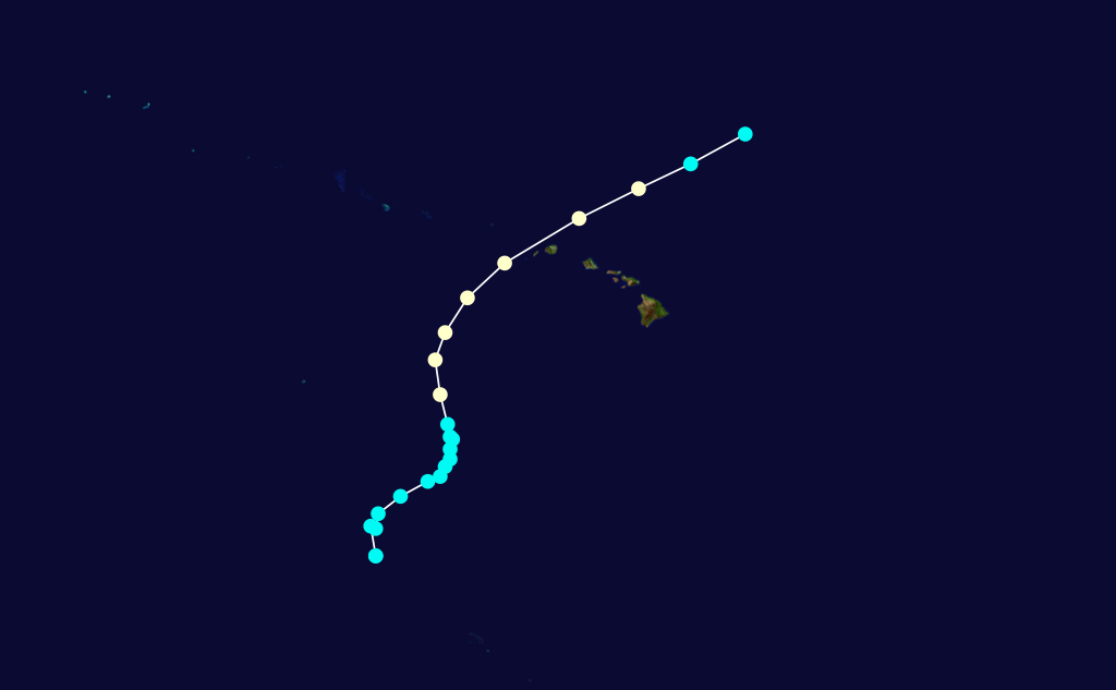 Hurricane Iwa (1982) track. Uses the color scheme from the Saffir-Simpson Hurricane Scale.